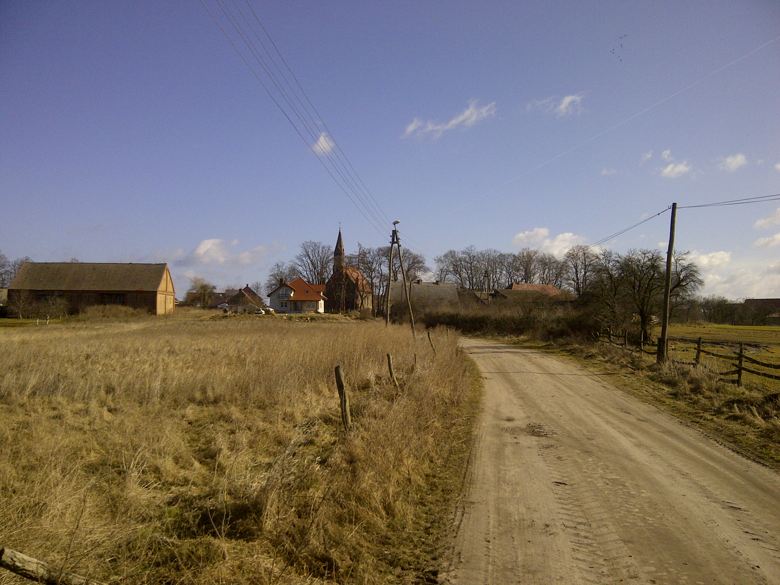 The skyline of Trzebow, view from west